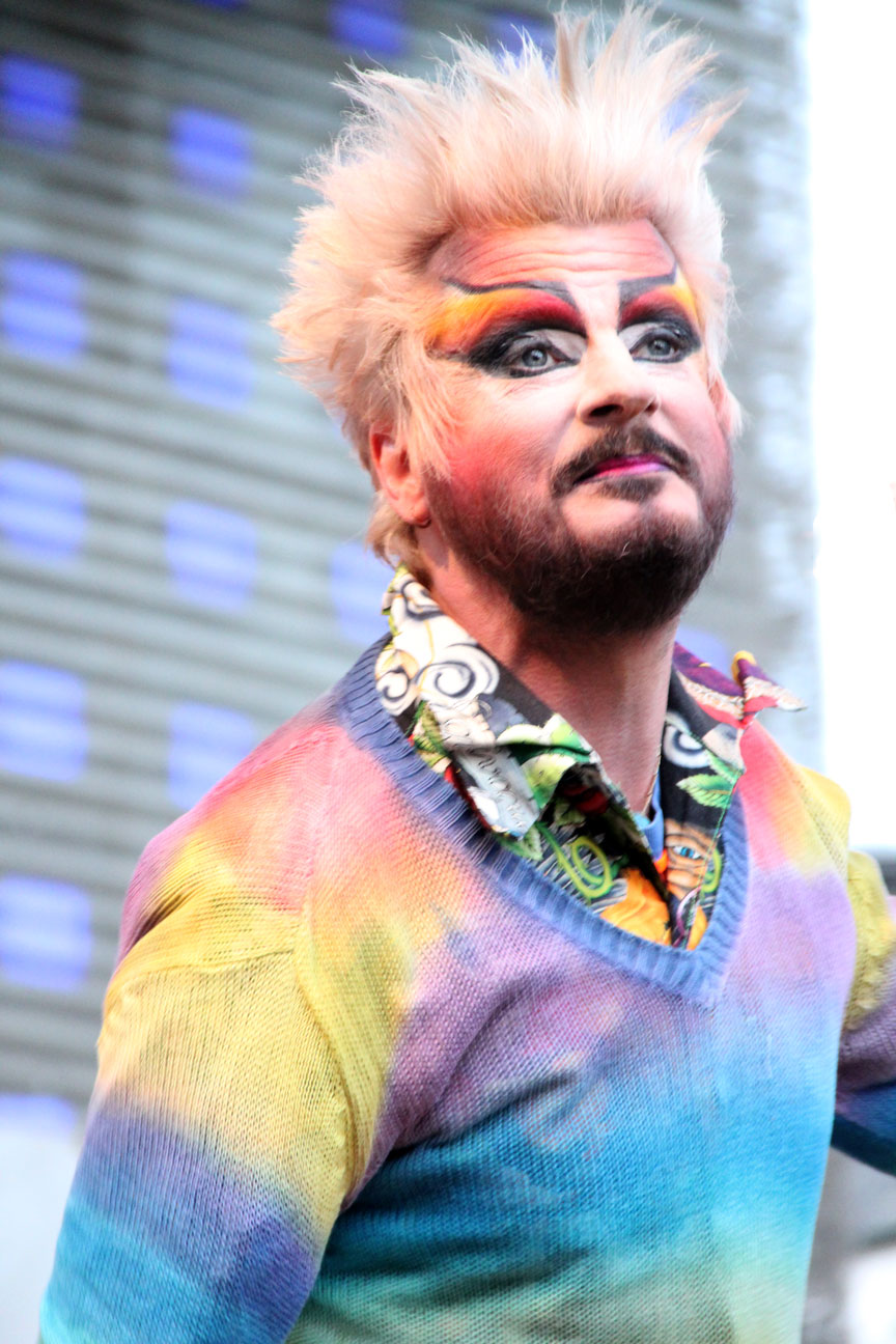 Kay Ray performing at St. Pauli Grillfest, Spielbudenplatz Hamburg, Germany (23 July 2011)